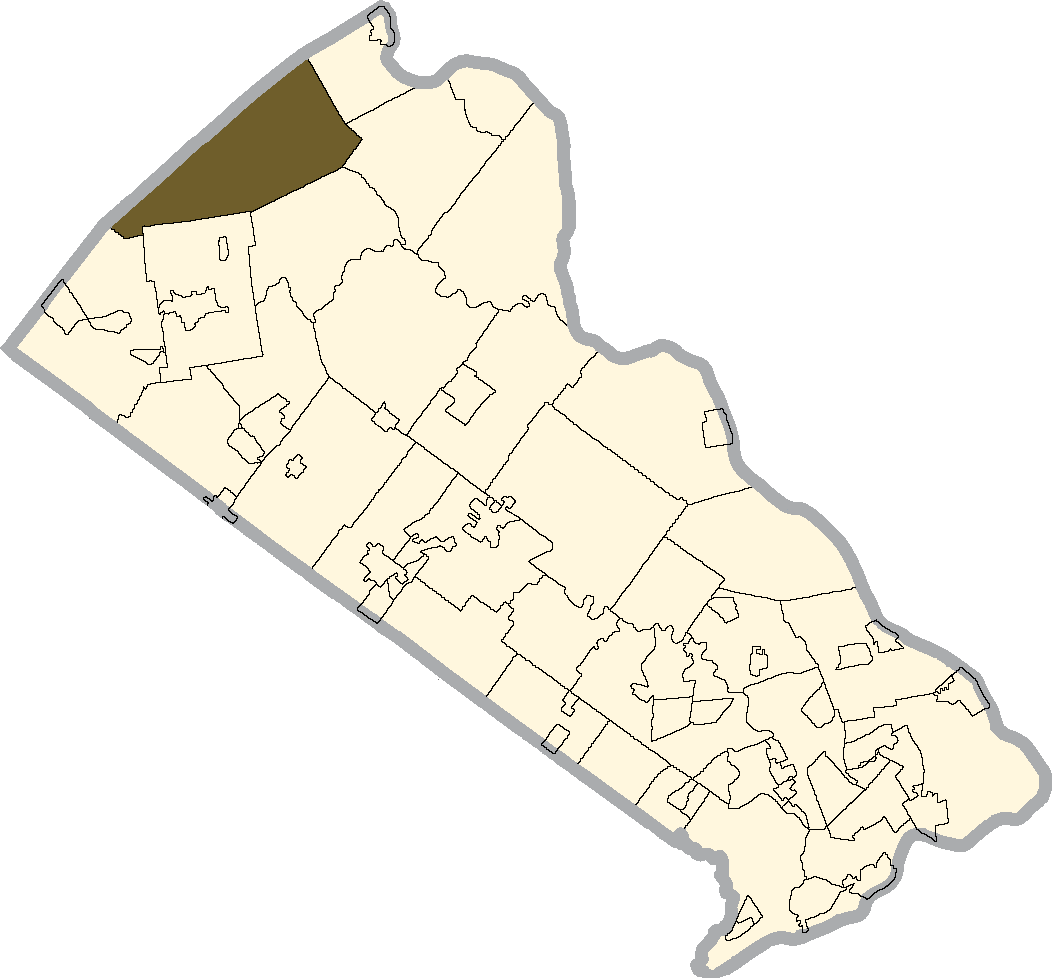 Springfield Township shaded on the map of Bucks county, PA.